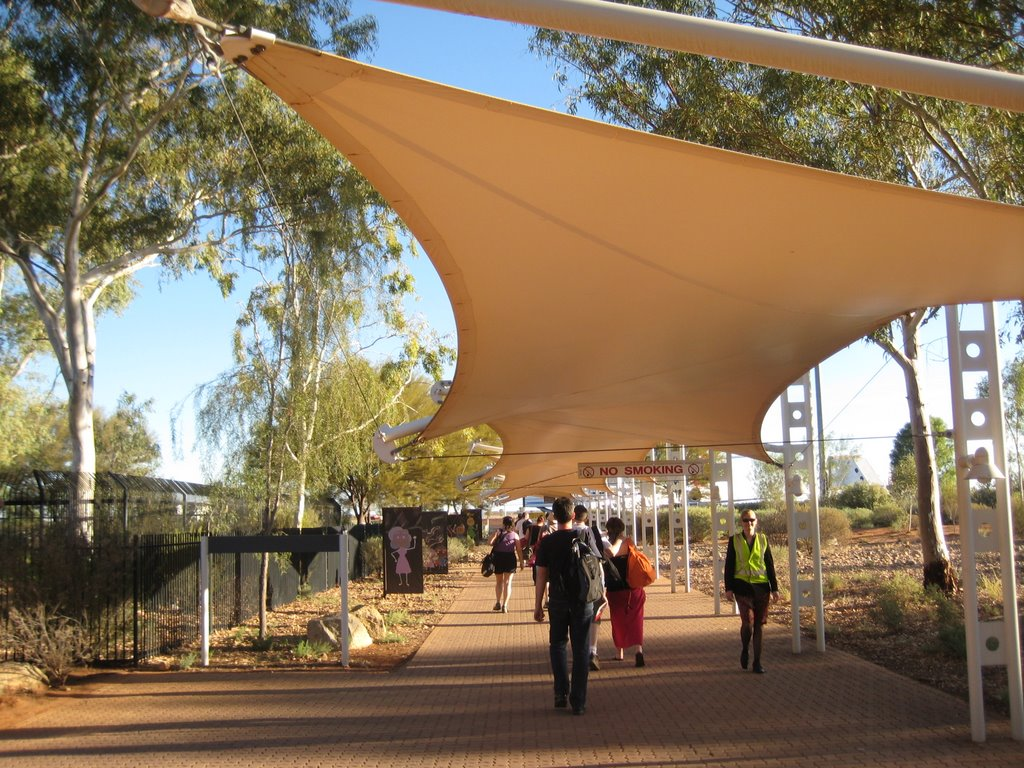 well, thats the way from the terminal to the airfield where my plane would wait. rather pristine, isn't it?